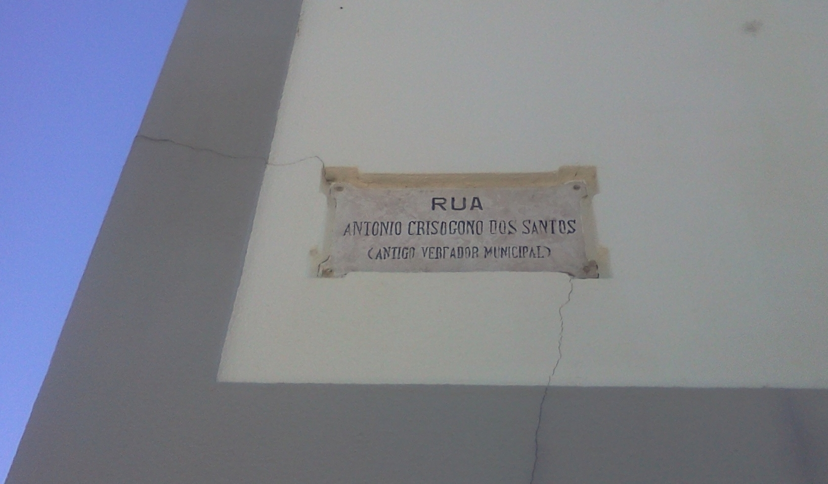 Street sign of Rua António Crisógono dos Santos, in the city of Lagos, in southern Portugal.